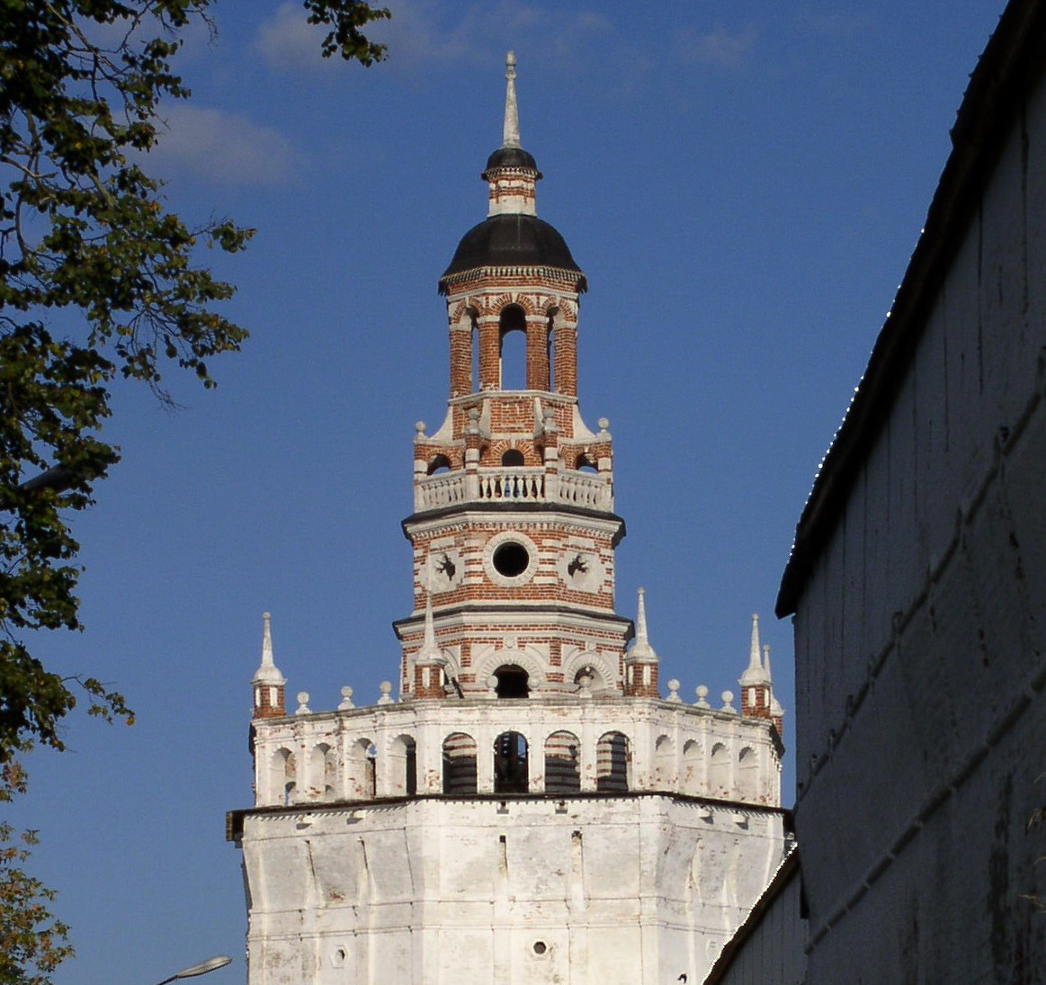 Detail 'Duck Tower' Troitse-Sergiyeva Lavra monastery, near Moscow. The upper part of the tower was copied from the design of the tower of the town hall in Maastricht by Dutch architect Pieter Post.